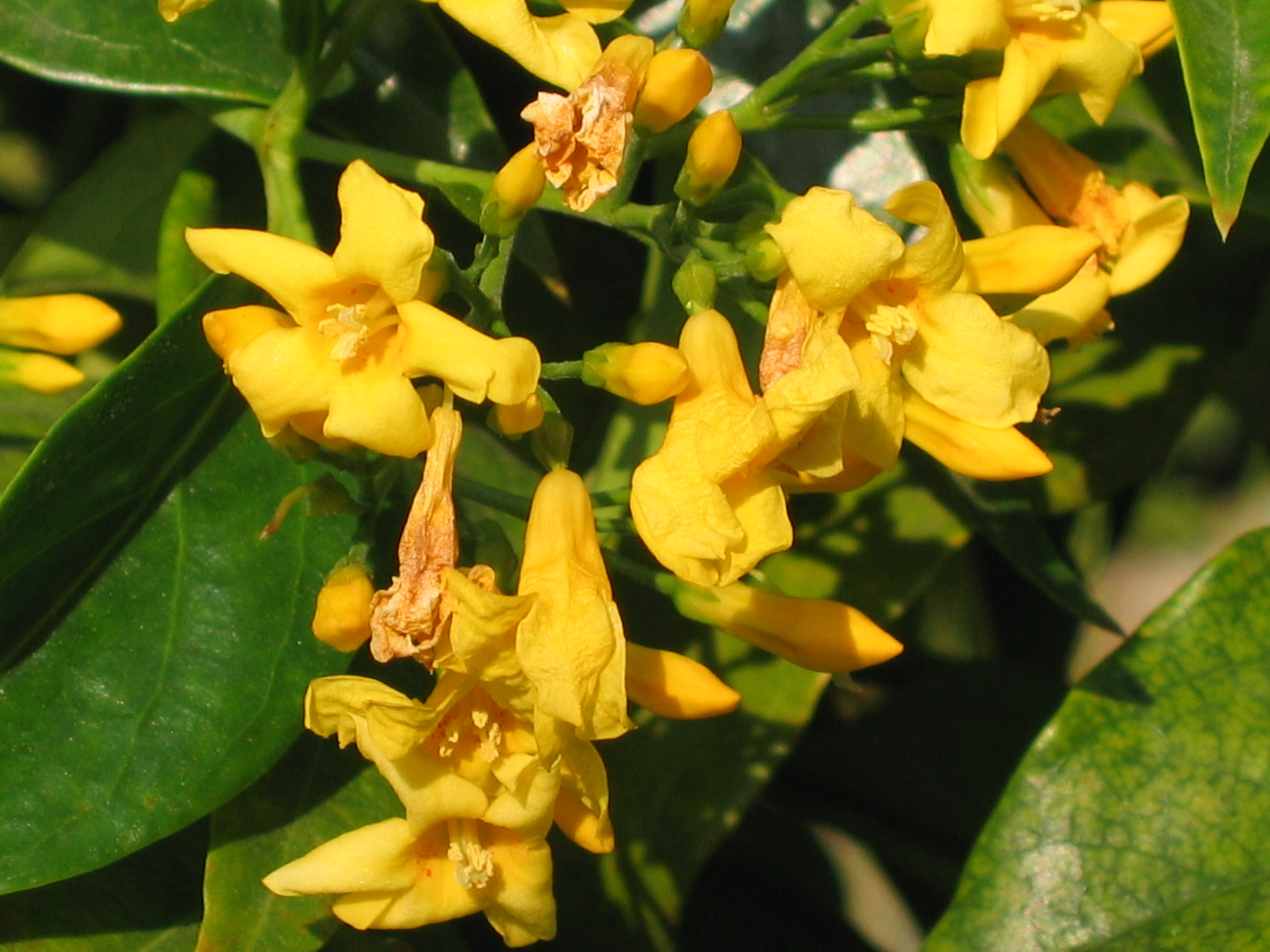 Heartbreak grass